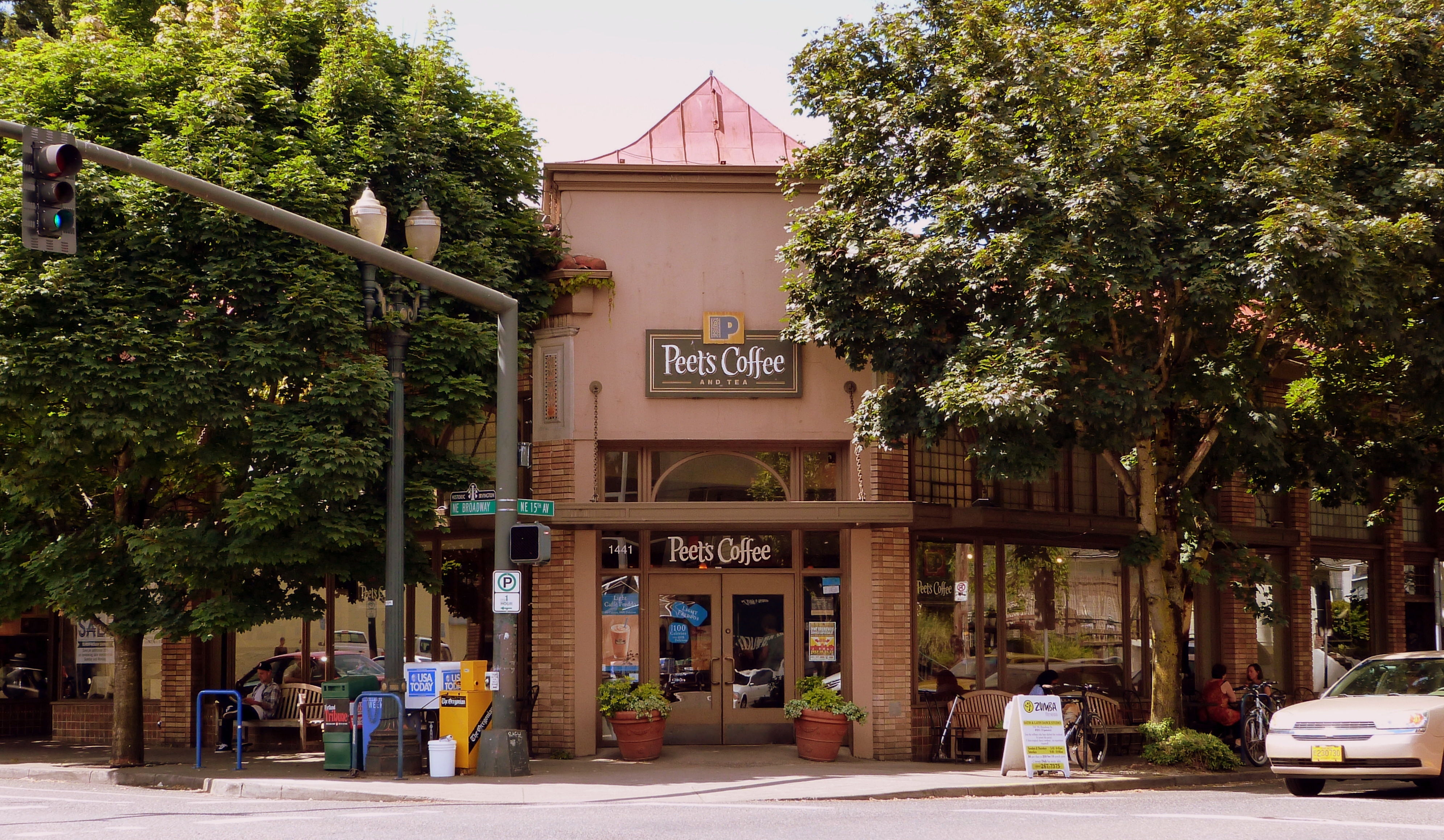 The historic Olsen and Weygandt Building (built 1927), located at 1421-1441 NE Broadway in Portland, Oregon, United States, is listed on the US National Register of Historic Places (NRHP). Photo taken diagonally across the intersection of NE Broadway and NE 15th Avenue.